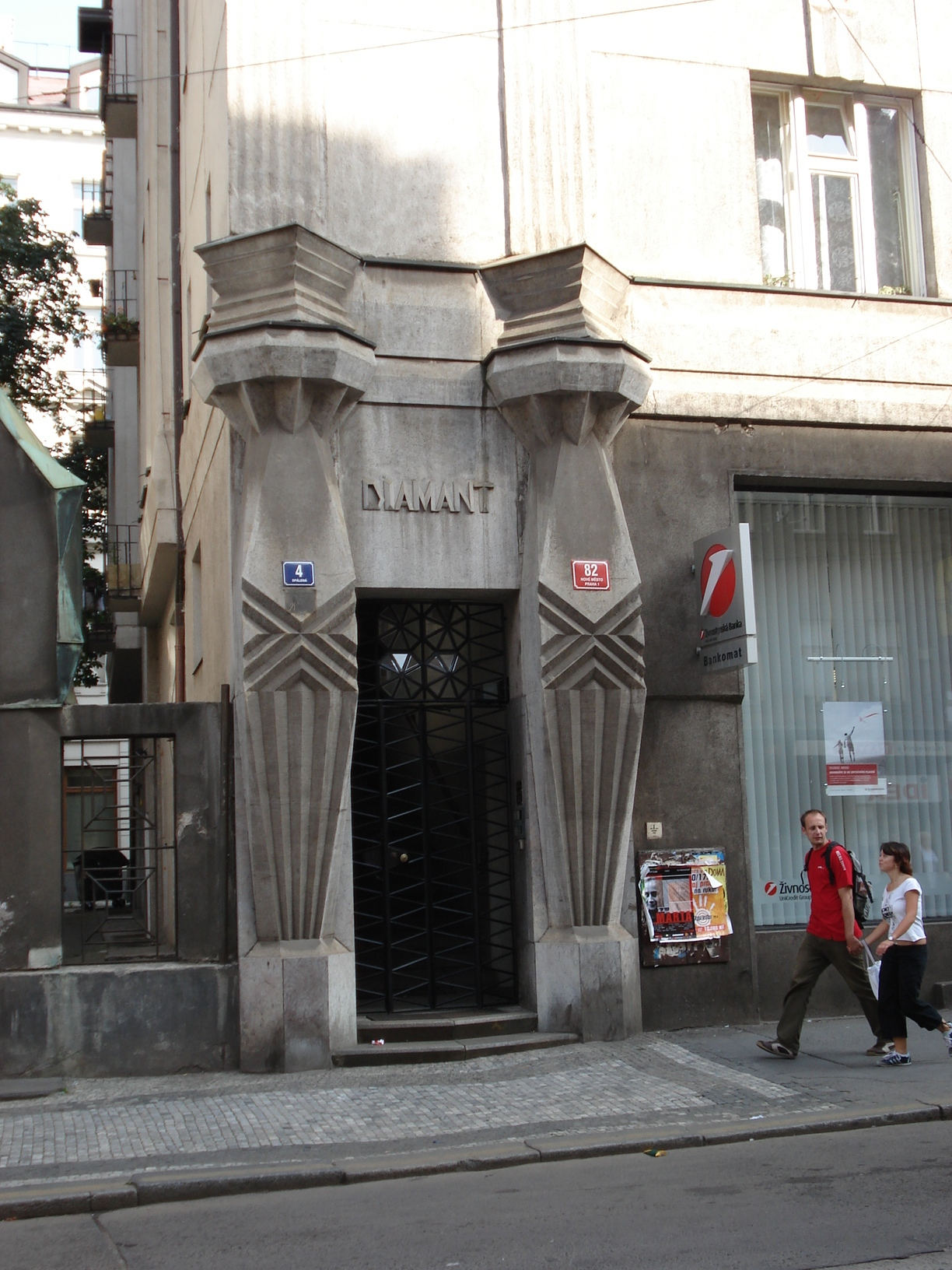 side door of Diamant building, architects: Emil Králíček and Matěj Blecha, Spalena ul. 82, Prague